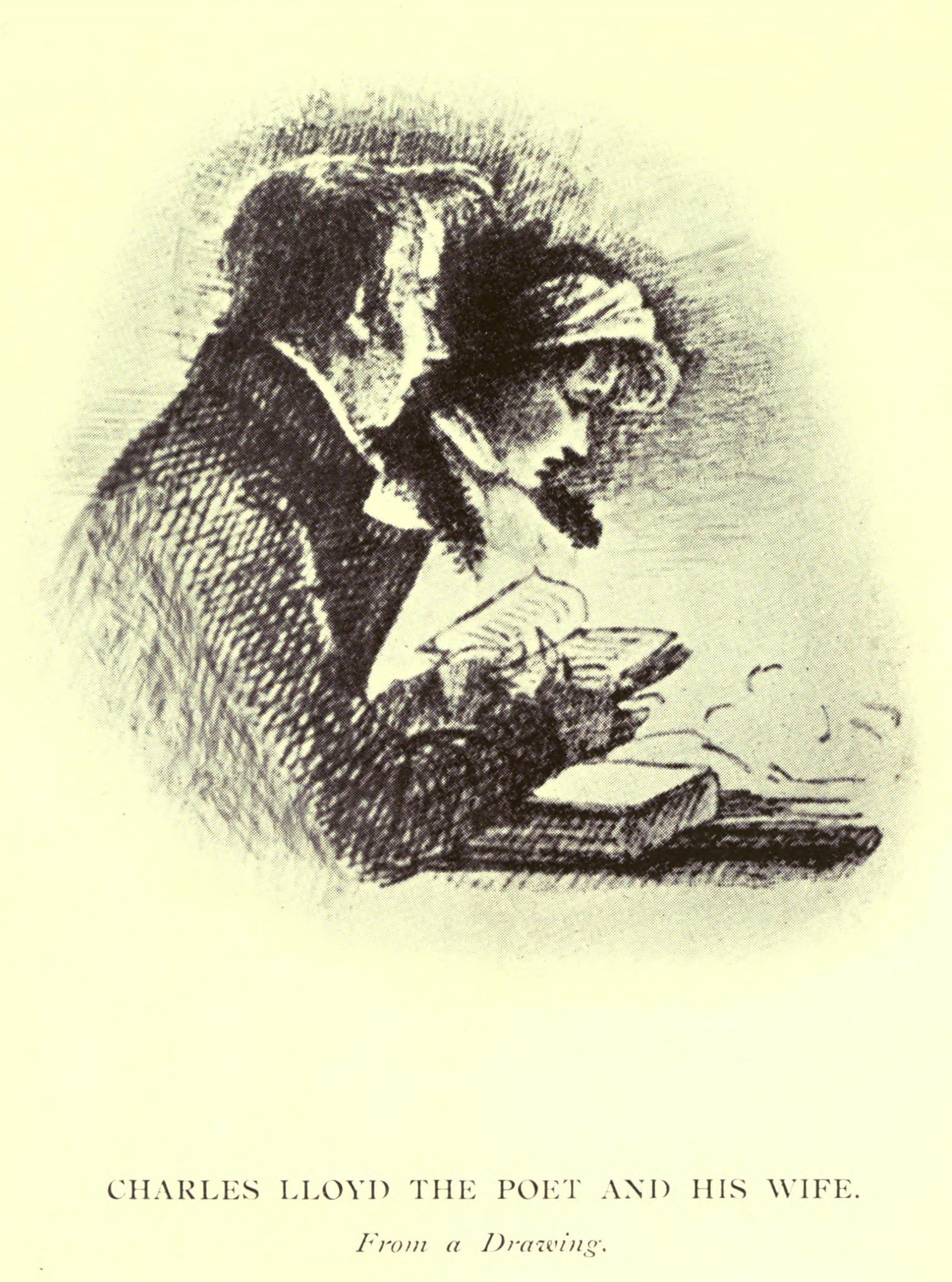 Engraving of a pen and ink drawing of Charles Lloyd reading to his wife